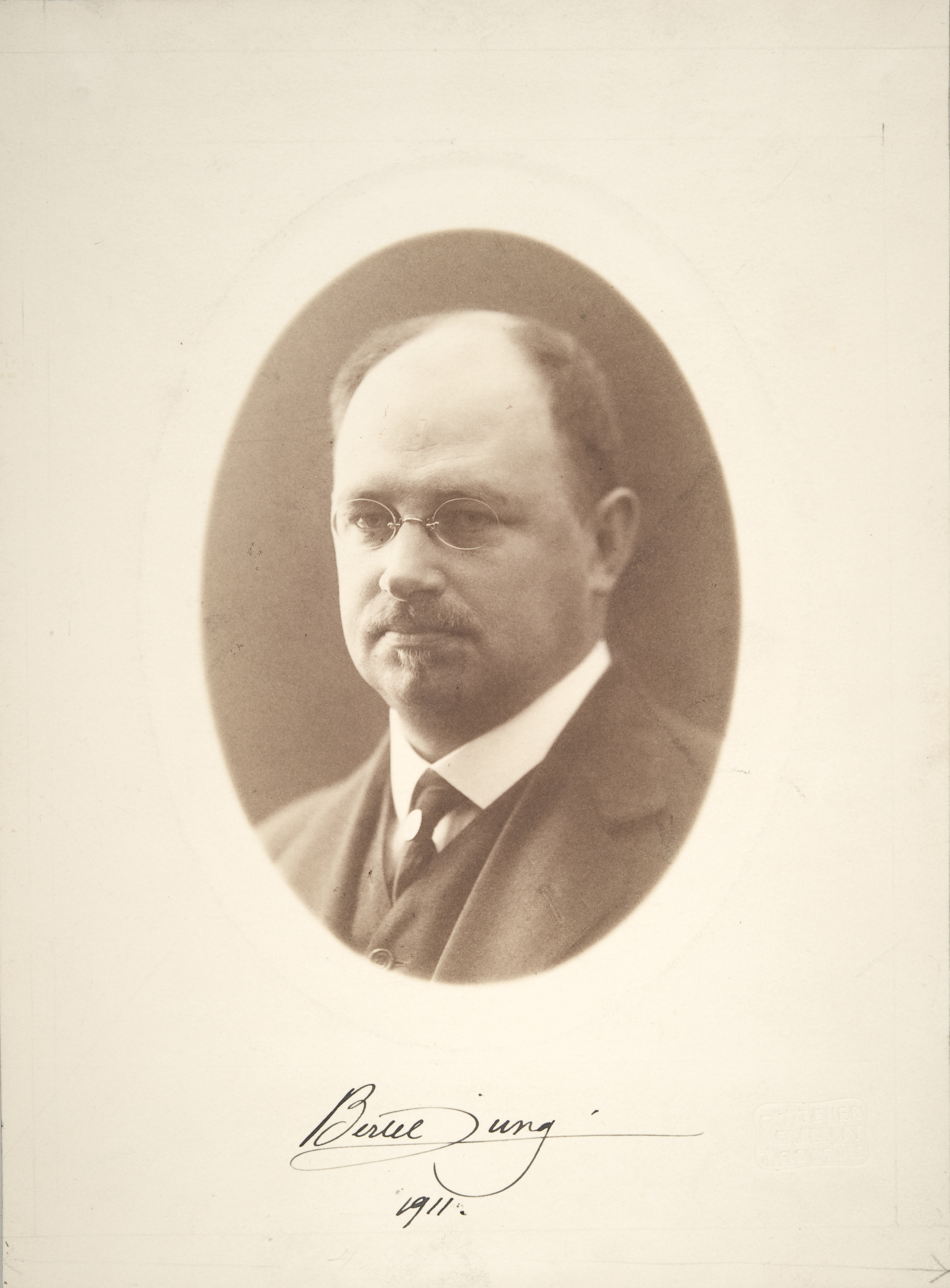 Photograph of the Finnish architect Bertel Jung (1872–1946).